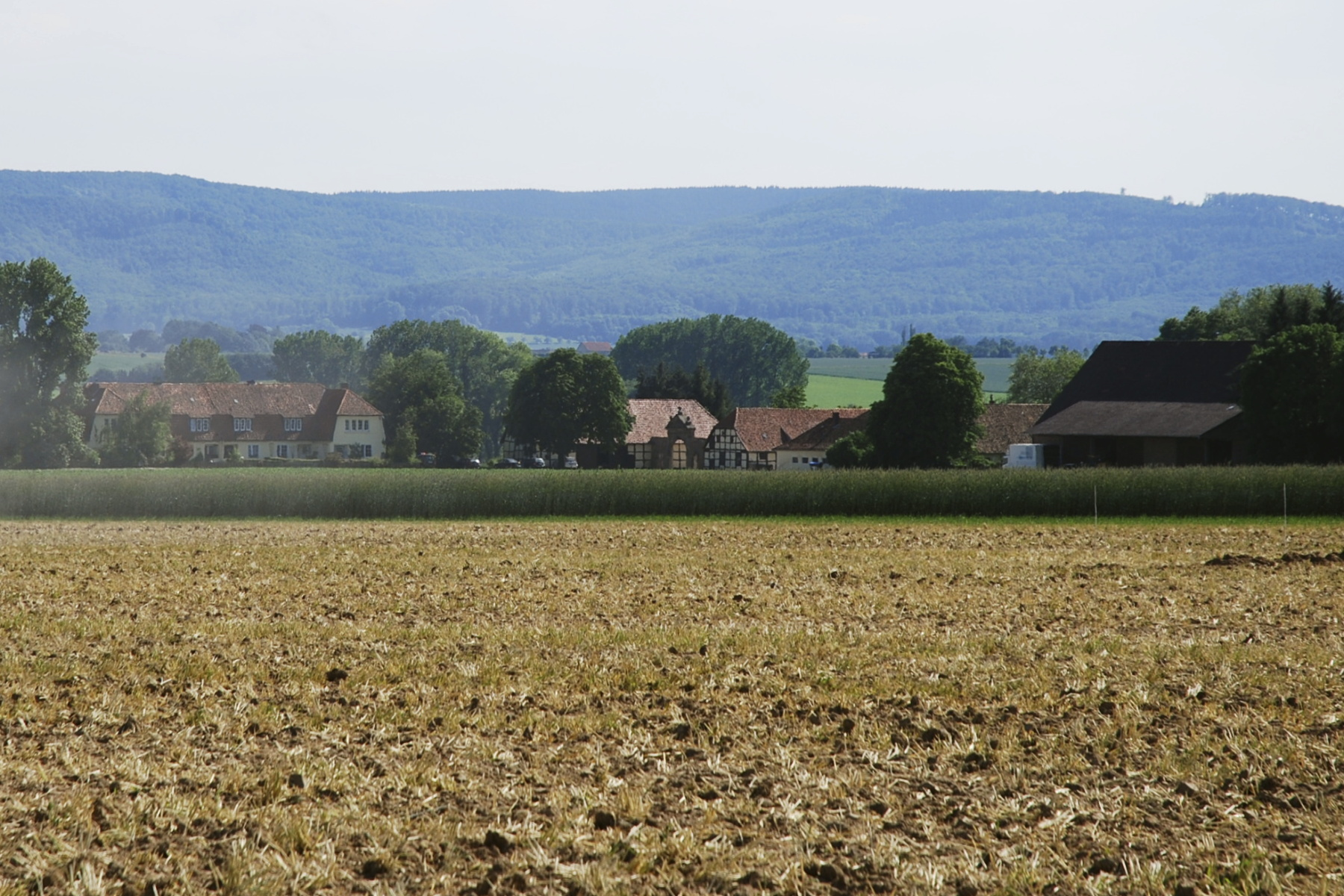 View from NNE towards the old farm estate/manor house "Rittergut Bockerode", "Osterwald" hills in the background; DLG field days 2010, Gut Bockerode, Springe-Mittelrode, Lower Saxony, Germany.